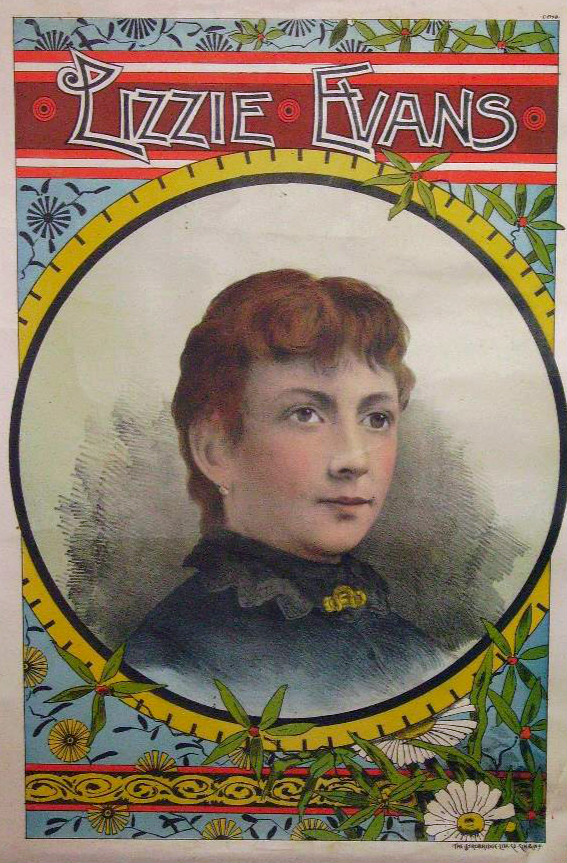 Theatrical poster featuring the vaudeville artist Lizzie Evans in Fogg's Ferry.